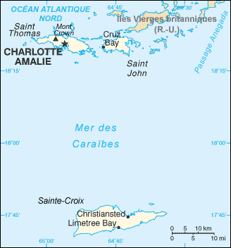 Map in French of the United States Virgin Islands